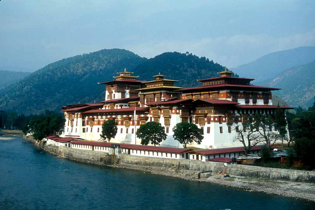 Punakha Dzong, a temple fortress in Bhutan.